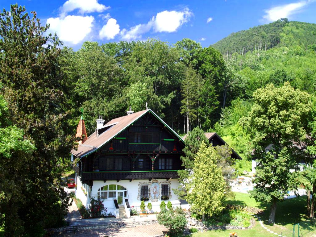 Haus Edelweiss today